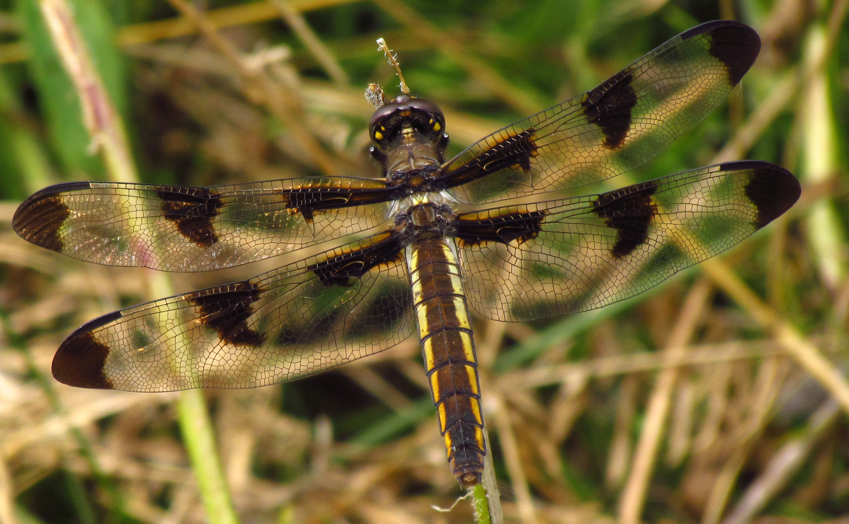 Twelve-spotted Skimmer (Libellula pulchella), female, Ottawa, Ontario, Canada